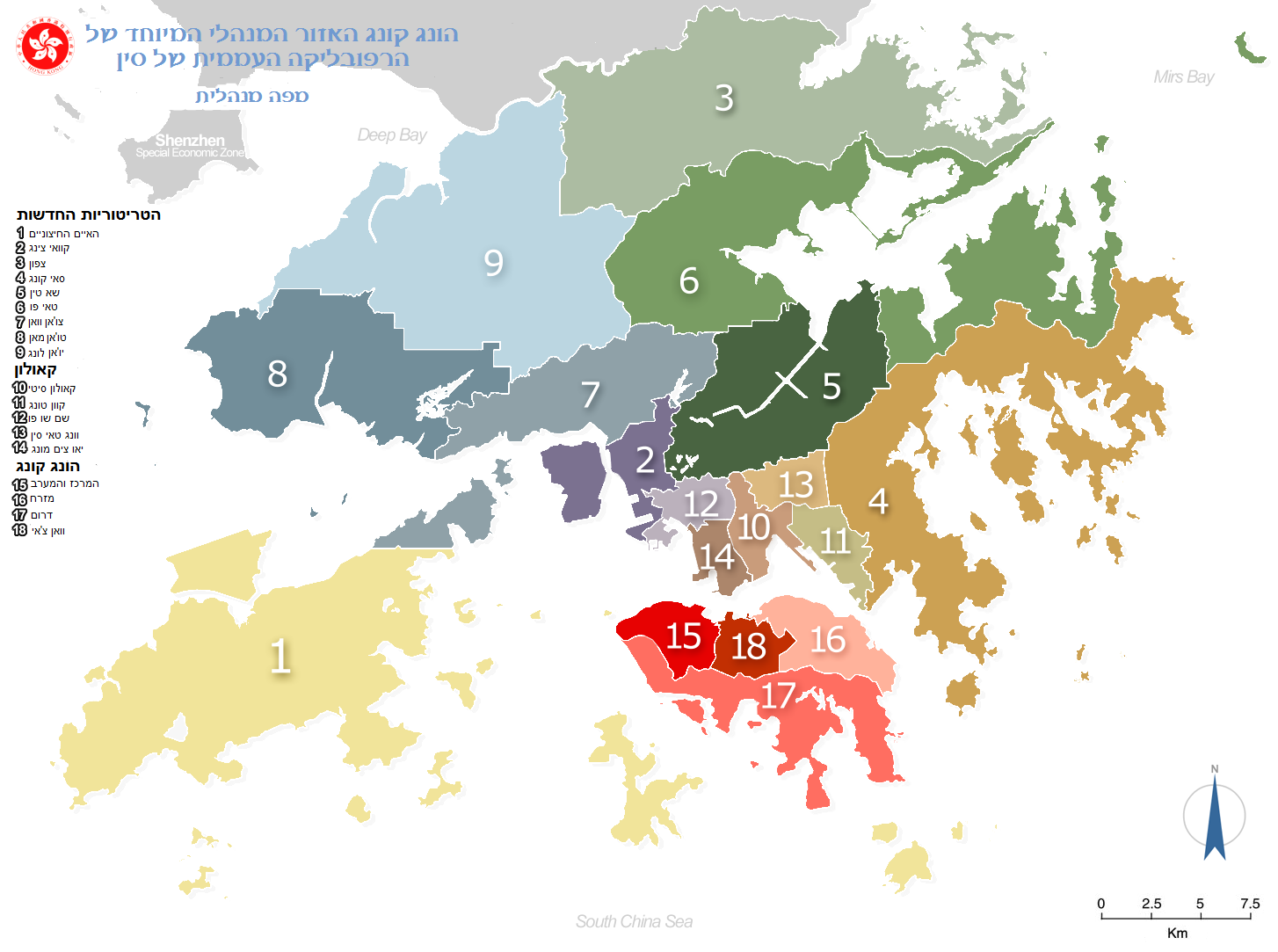 Hong Kong map with hebrew captions